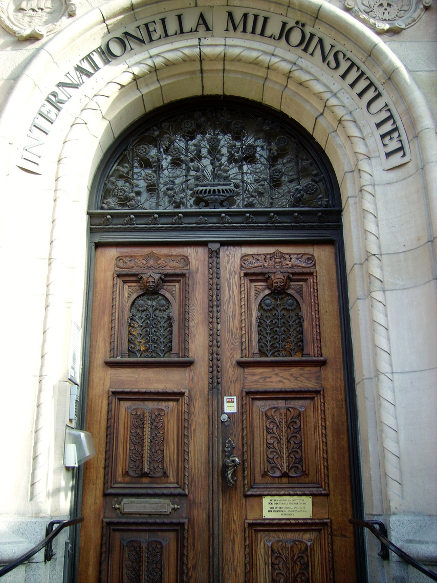 International Institute for Industrial Environmental Economics, or in Swedish, Internationella miljöinstitutet. Lund, Sweden.